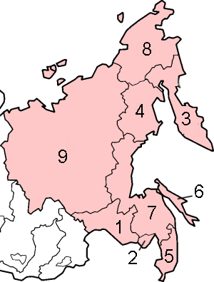 Fake map of Subdivisions of the Russian Far Eastern Federal District. Several divisions are missing: 1) Chukotka is not part of Magadan Oblast (since 1991) and should thus have its own number, 2) Kuril islands are not shown.